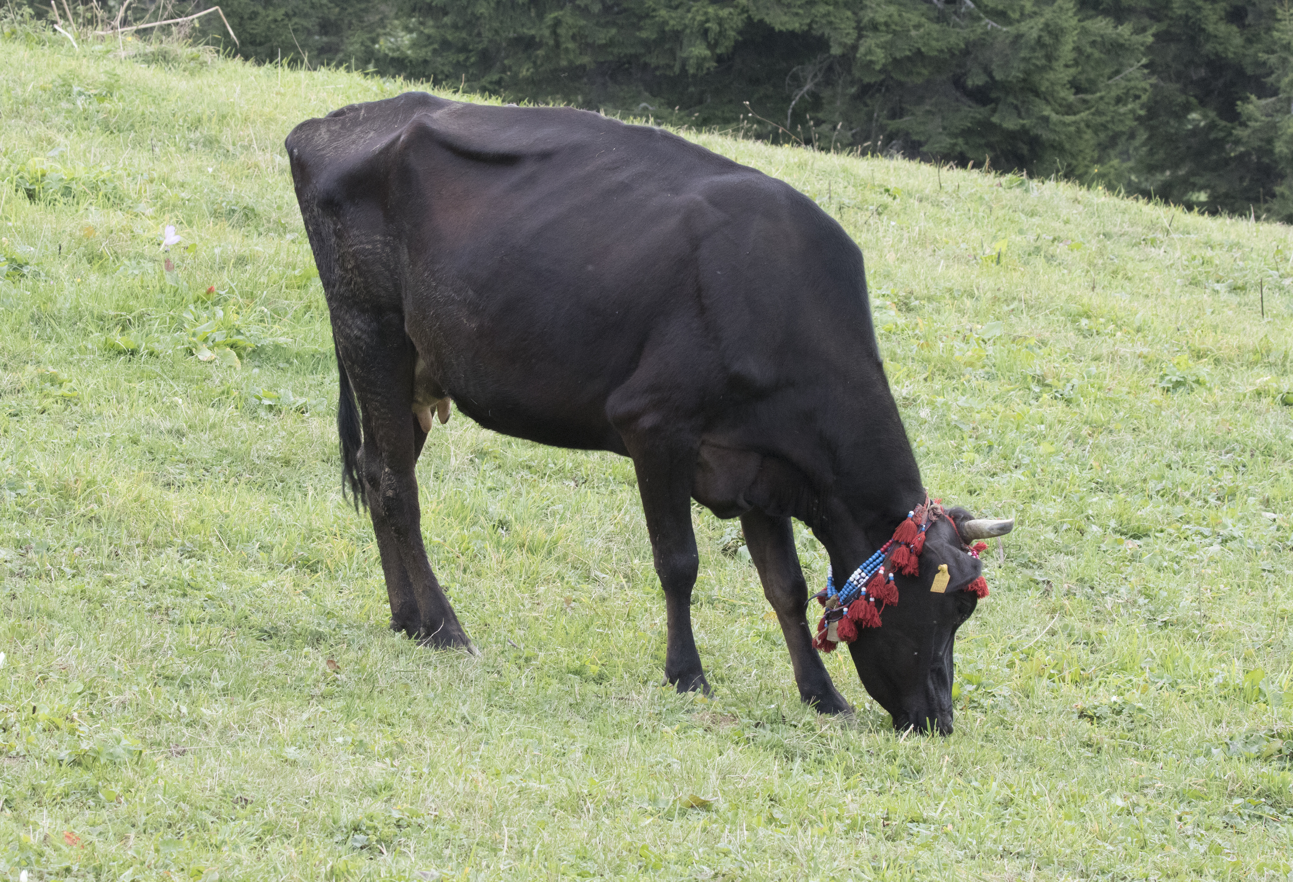 A grazing cow of Turkish Natıve Black Cattle breed. Gökçeköy, Şalpazarı - Trabzon, Turkey.